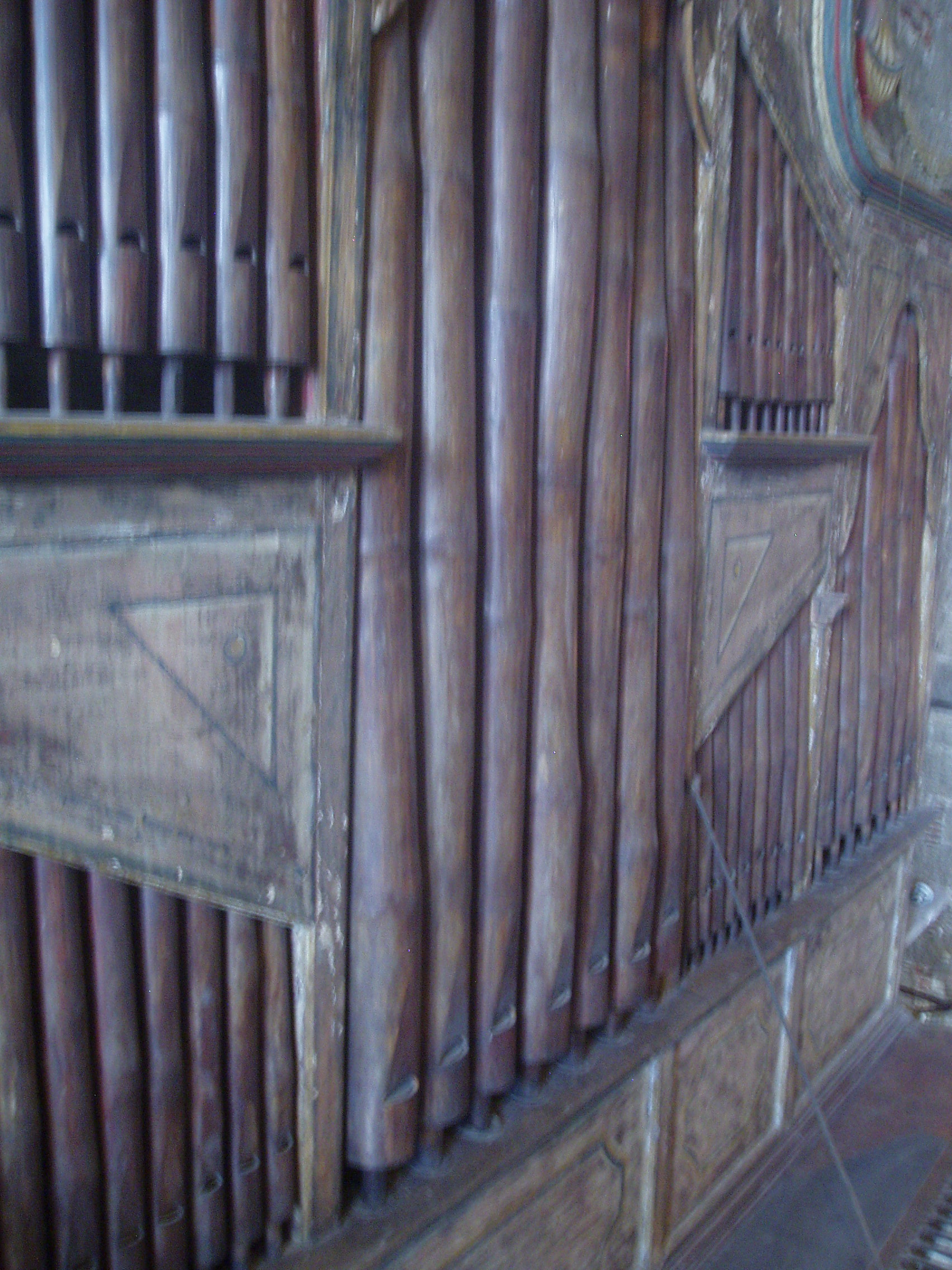 Close picture of the facade pipes of the bamboo organ in Saint Joseph Parish Church, Las Piñas, Metro Manila, Philippines